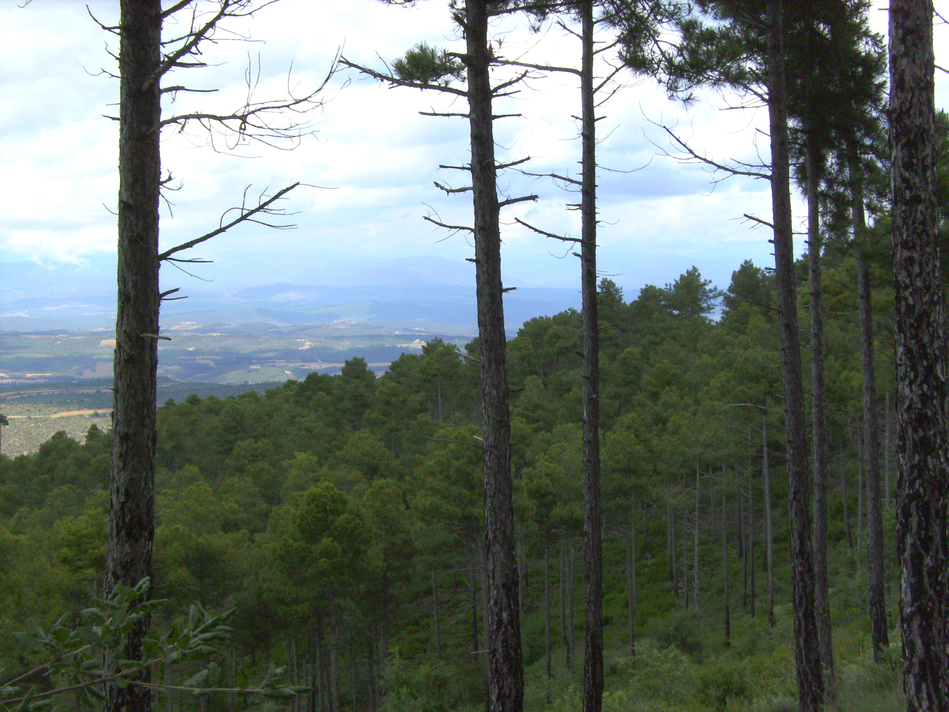 Wildfire effects on Pinus nigra. 13 years after th ildfire of the year 1998 the trunks still are black. Castelltallat, Catalonia